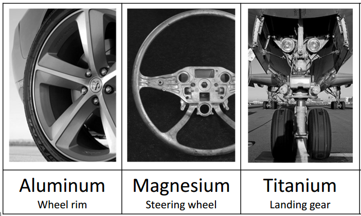 کاربرد آلیاژهای سبک در صنعت حمل و نقل